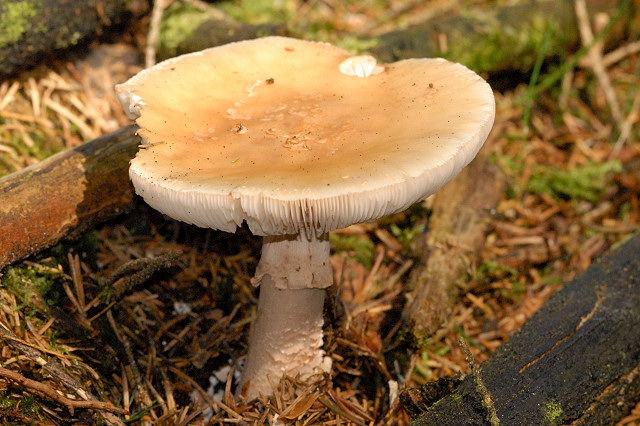 Amanita spec. from Commanster, Belgium. The determination of the species shown in this picture has been verified.